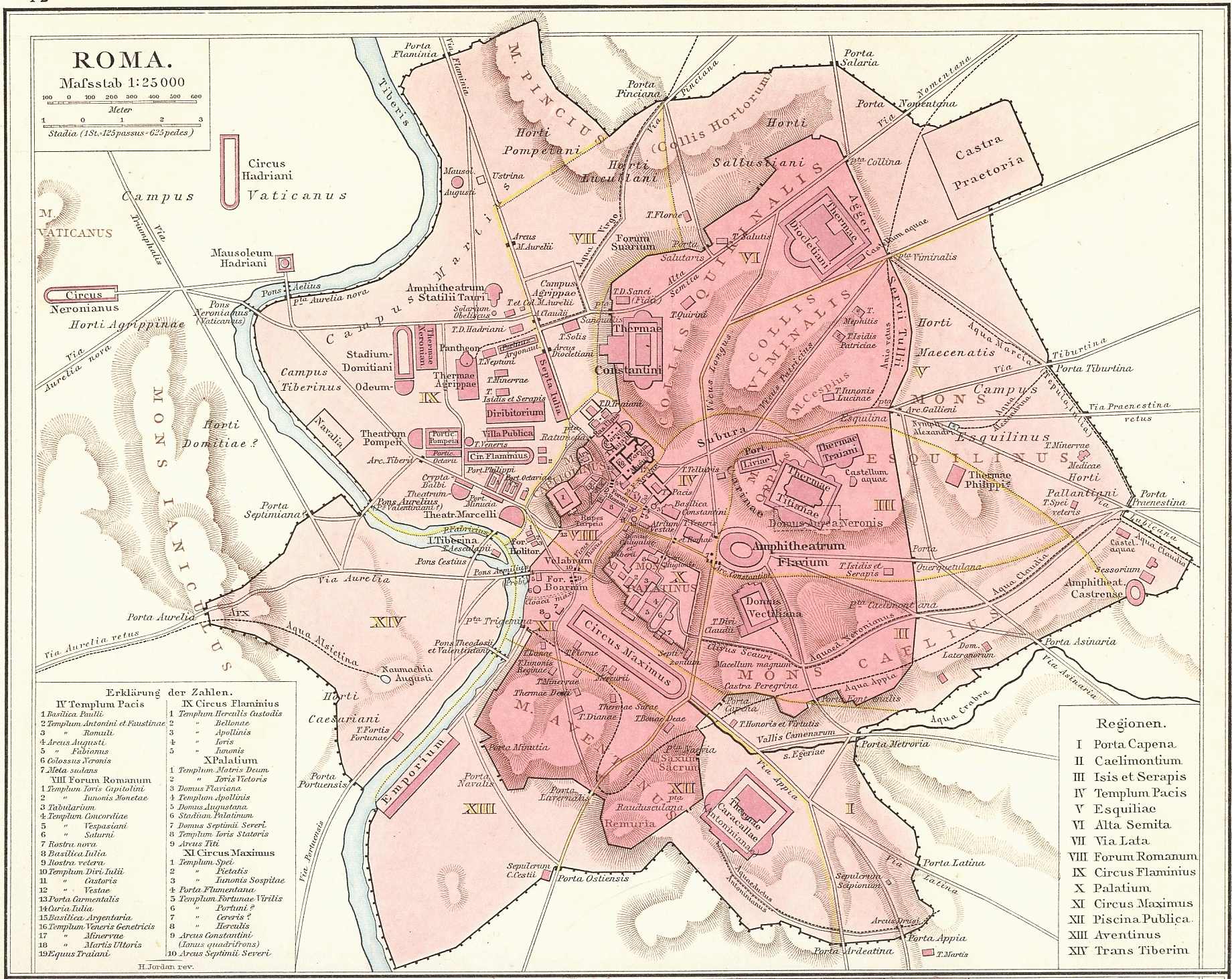 Map of Rome during Antiquity